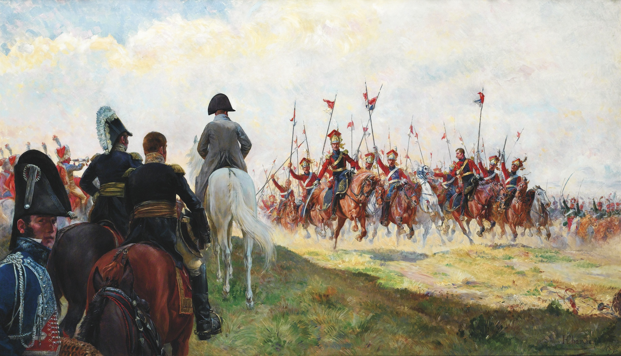 The Red Lancers after the charge at the battle of Hanau